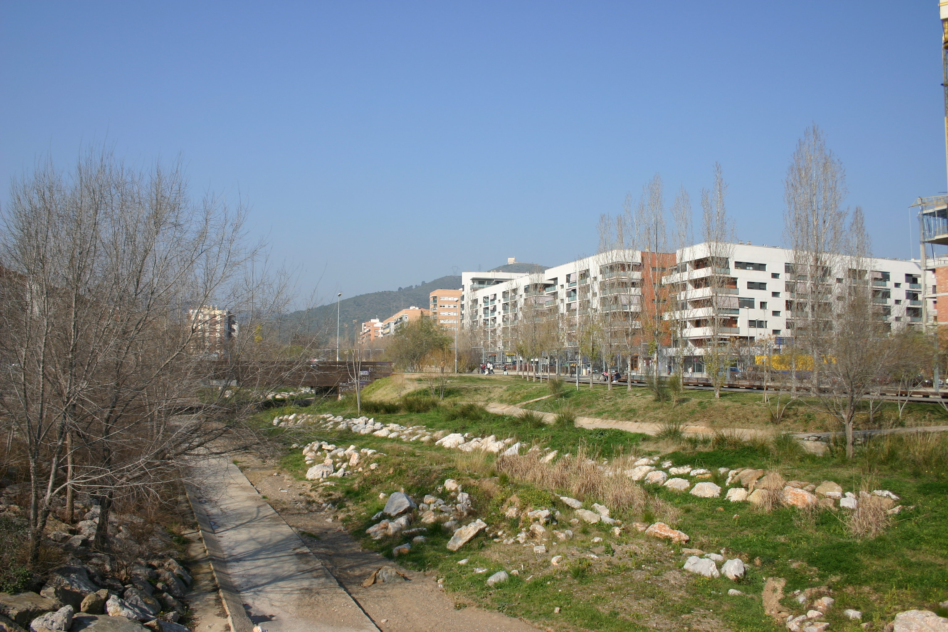 Riera City: Viladecans Comments: By/Por: Yearofthedragon